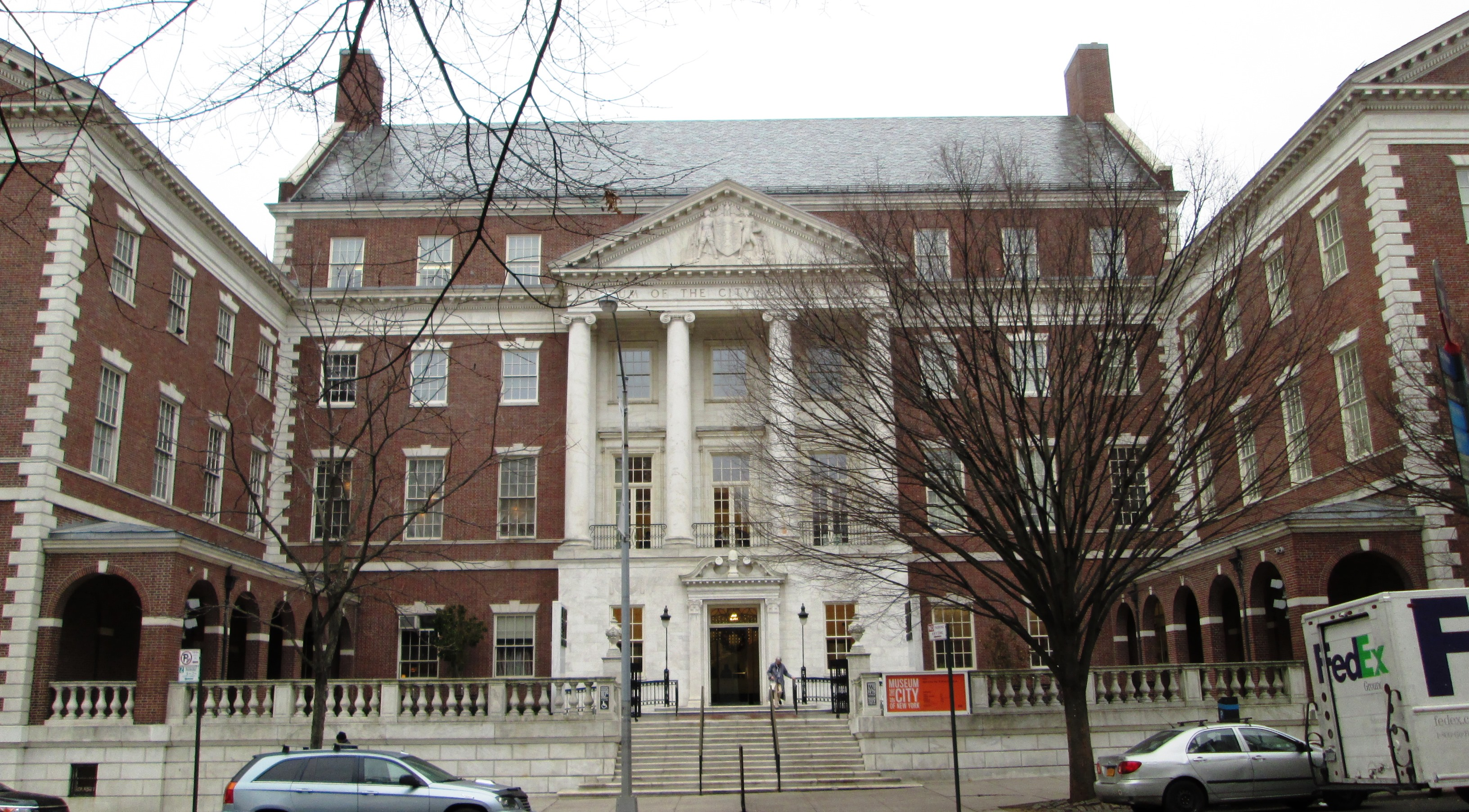 The Museum of the City of New York, located at 1220-1227 Fifth Avenue from East 103rd to 104th Streets, across from Central Park in the East Harlem neighborhood of Manhattan, New York City, was incorporated in 1923, and was originally located in Gtacie Mansion. The museum's current building was constructed in 1928-30 and was designed by Joseph J. Freedlander in the neo-Georgian style; the site was donated by the city, but the building was erected using private funds. Renovations to the galleries and a new pavilion were built in 2008, designed by the Polshek Partnernership. Statues of Alexander Hamilton and DeWitt Clinton by sculptor Adolph A. Weinman face Central Park from niches in the facade. (Sources: Guide to NYC Landmarks (4th ed.) and AIA Guide to NYC (5th ed.))